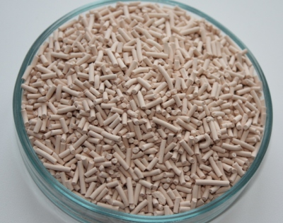 Extruded granules - NaX synthetic zeolite